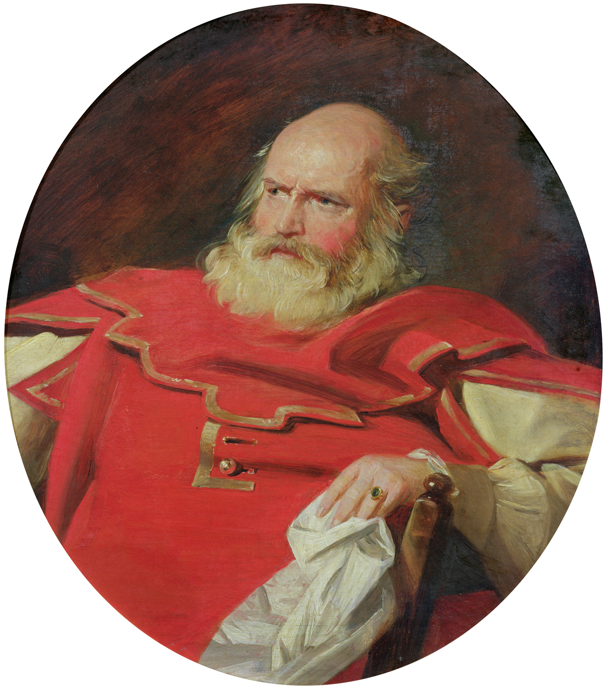 Falstaff by Charles Robert Leslie 1794–1859.